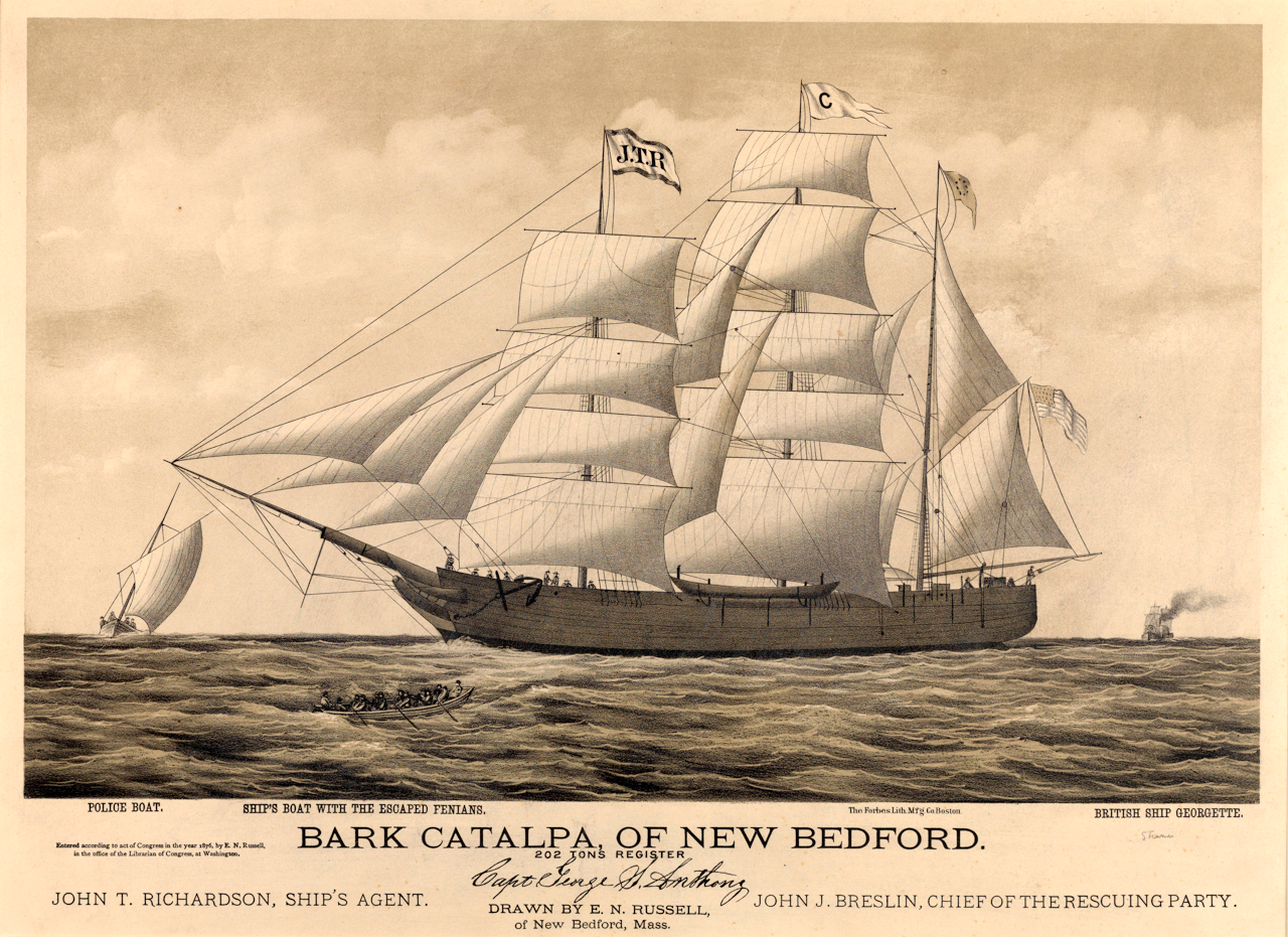 Escaped convicts are rowed towards the whaler Catalpa of New Bedford, with police boat and British ship Georgette in pursuit. (PAH0582)